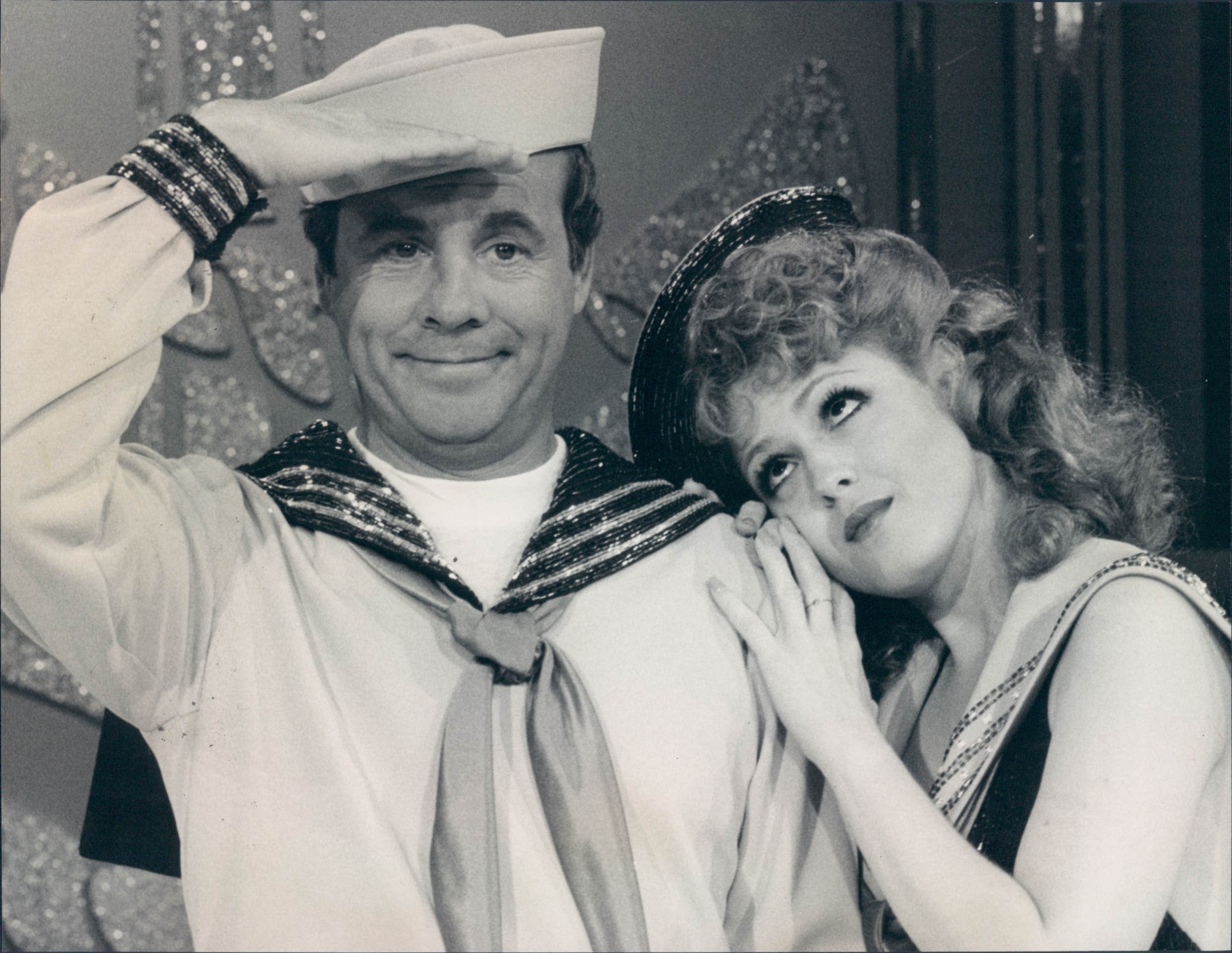 Bernadette Peters on Tim Conway Show (1977)